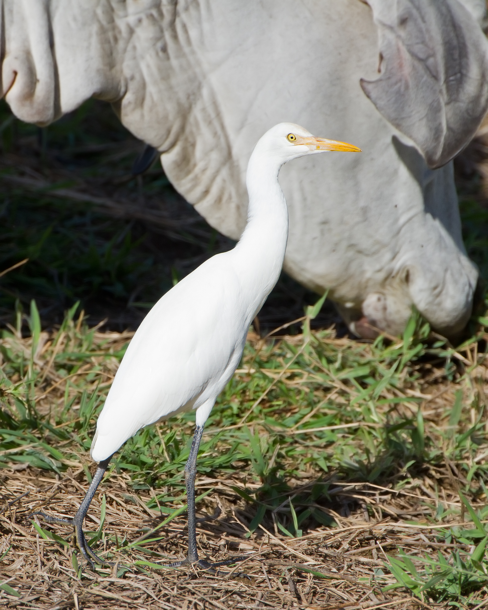 Eastern Cattle Egret Bubulcus coromandus, Daintree Village, Queensland, Australia